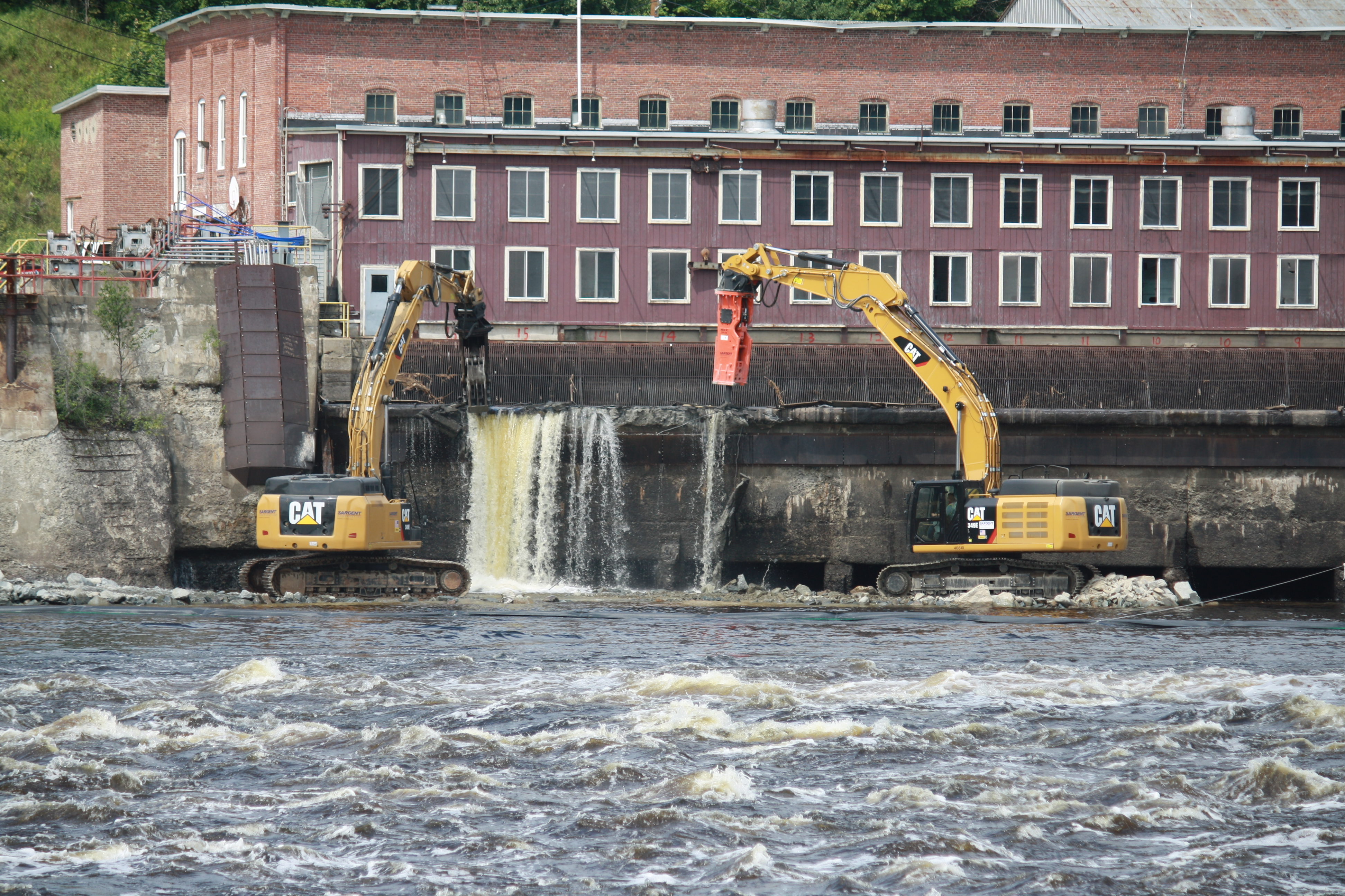 Excavators begin the breaching of Veazie Dam. The removal of the 830-foot long, 30 foot high buttress-style Veazie Dam, built in 1913, is a monumental step in the Penobscot River Restoration Project, among the largest river restoration efforts in the nation’s history. Credit: Meagan Racey, USFWS